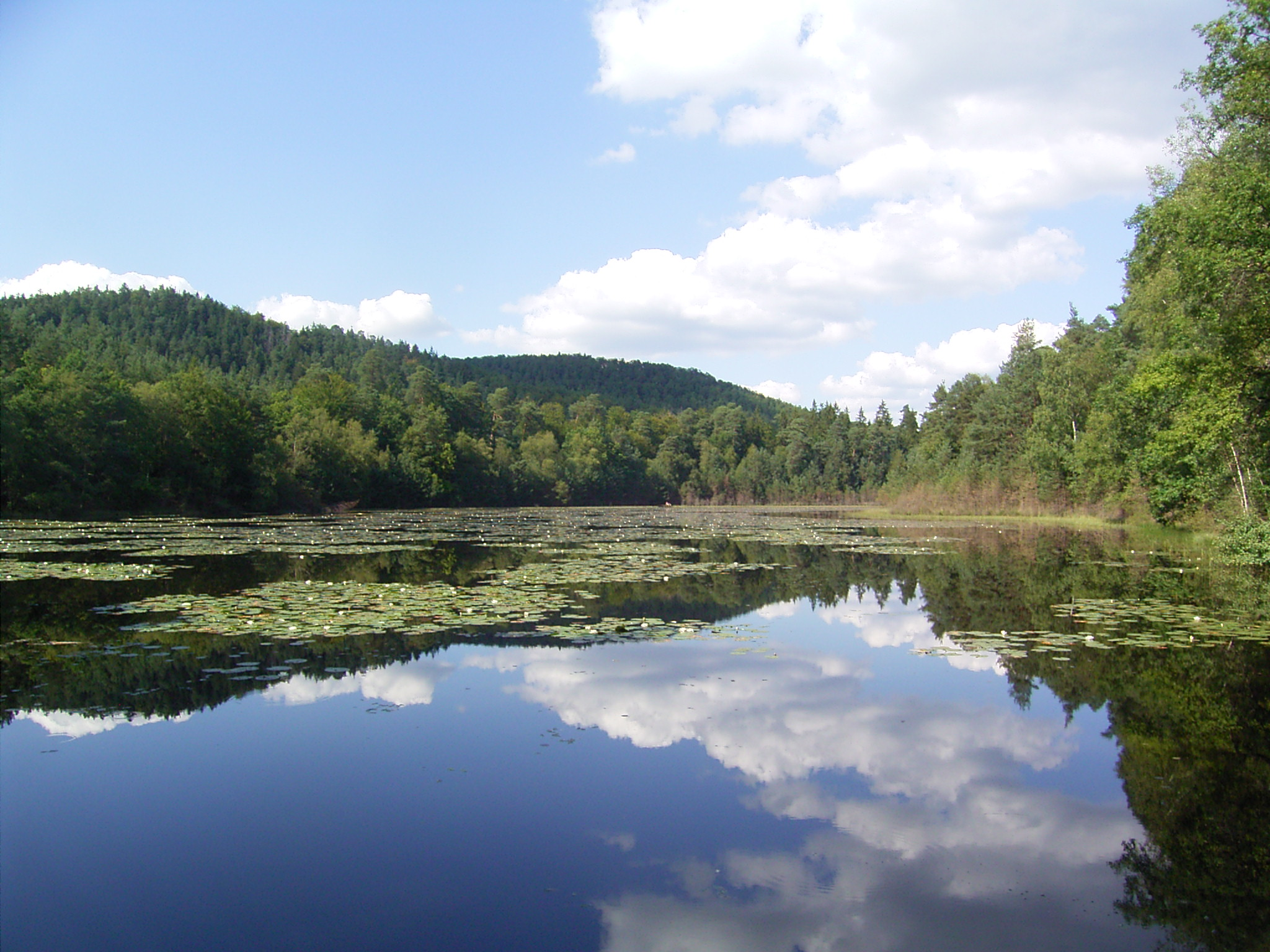 Lieschbach pond, Philippsbourg, Moselle, France